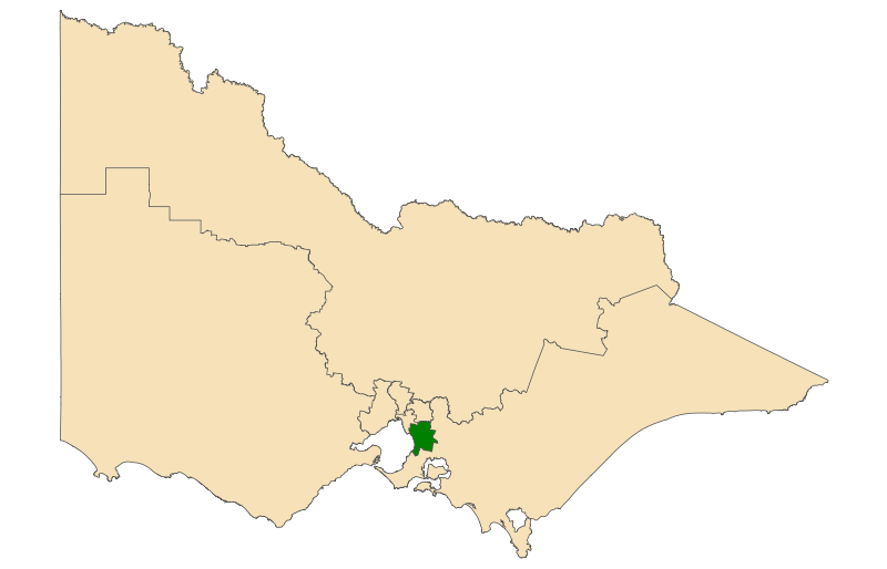 Location of the Victorian Legislative Council Region of South-Eastern Metropolitan (dark green).